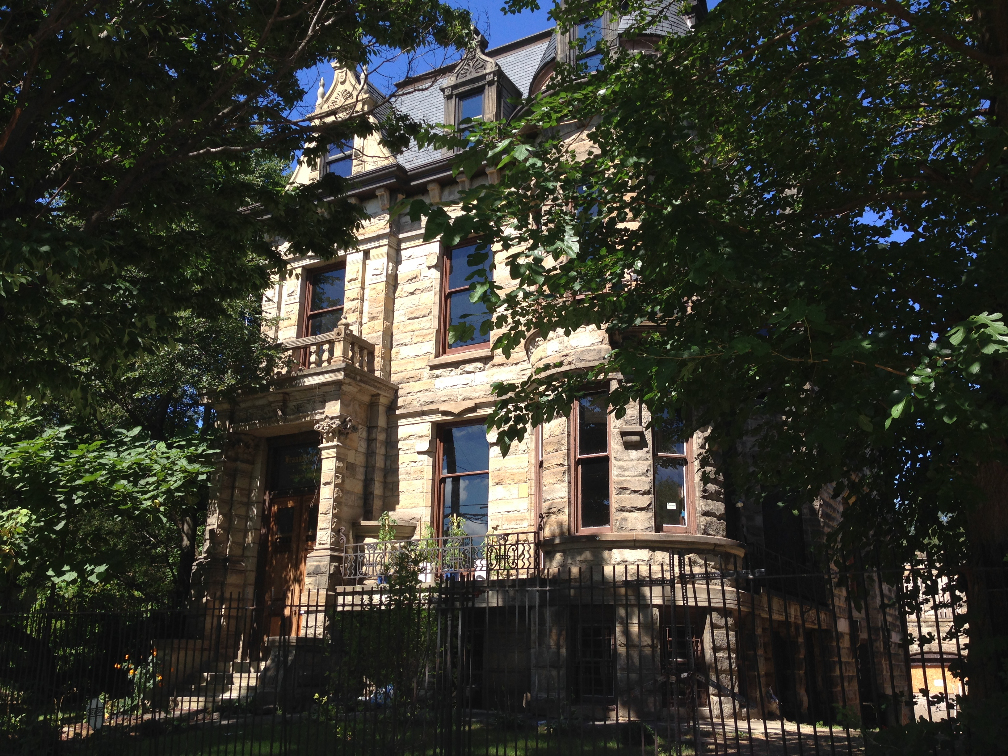 Hannes Tiedemann House, 4308 Franklin Boulevard Cleveland, Ohio